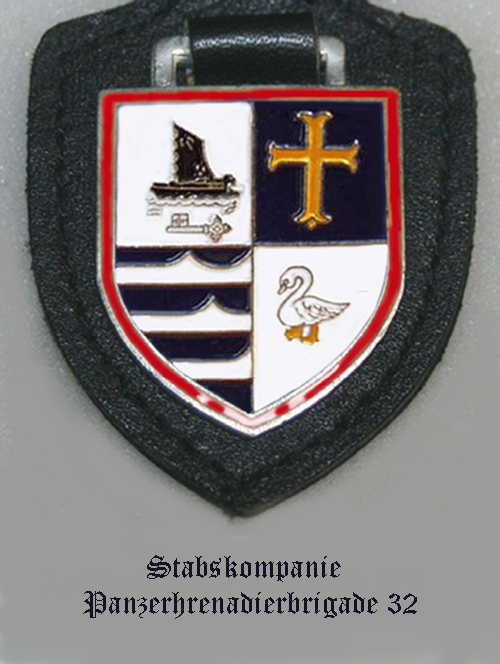 Internal coat of arms Stabskompanie Panzergrenadierbrigade 32 (StKp PzGrenBrig 32) of the Bundeswehr (Armed Forces of the Federal Republic of Germany). → Remarks on naming and categorization scheme